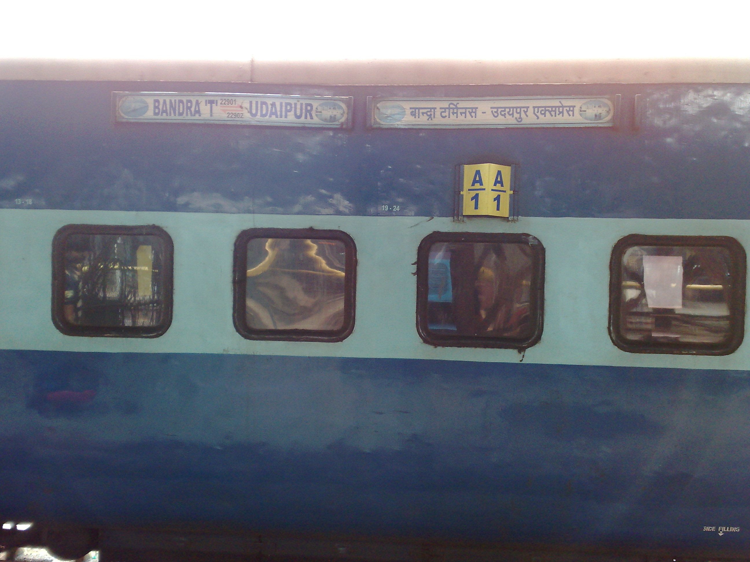 22902 Udaipur Superfast Express - AC 2 tier